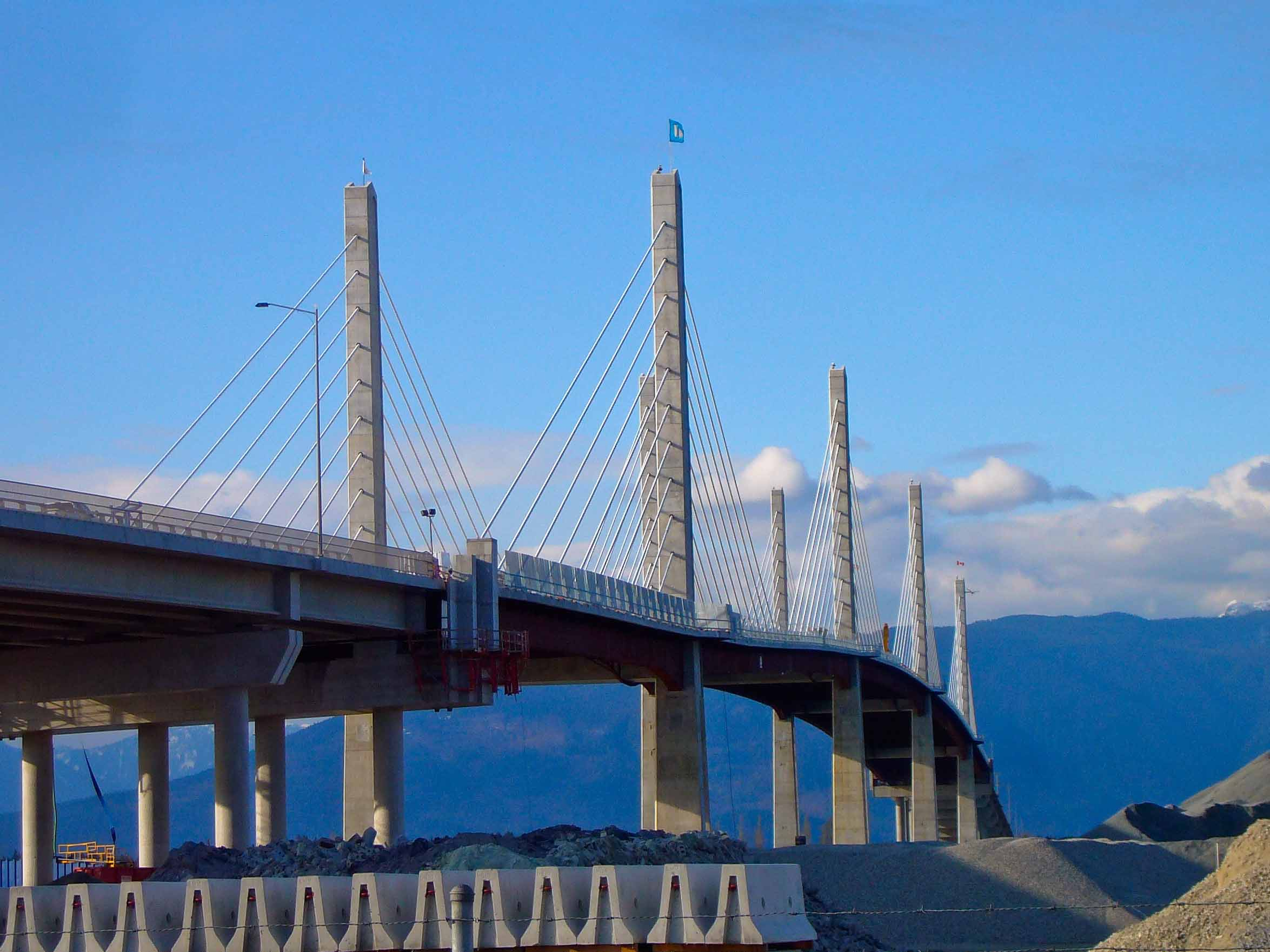 An image of the Golden Ears Bridge in Maple Ridge/Langley, British Columbia, Canada.